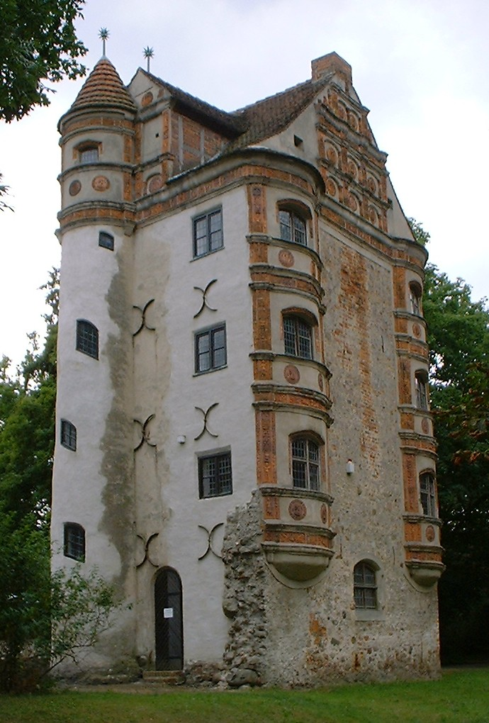 Castle Freyenstein in Brandenburg, Germany